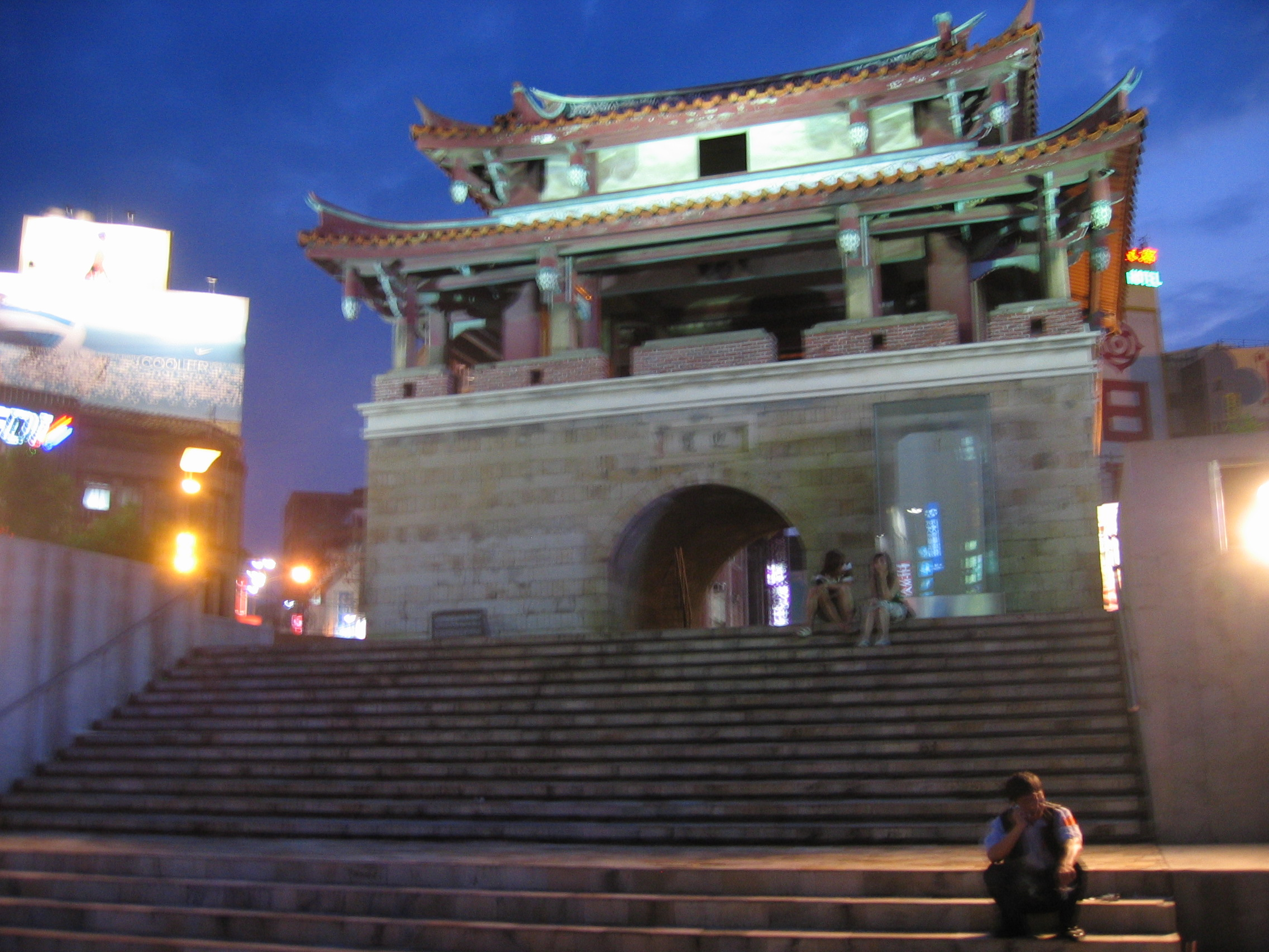 Photo taken on 2005.06.30 by User:Jiang in Hsinchu City, Taiwan Province, Republic of China.